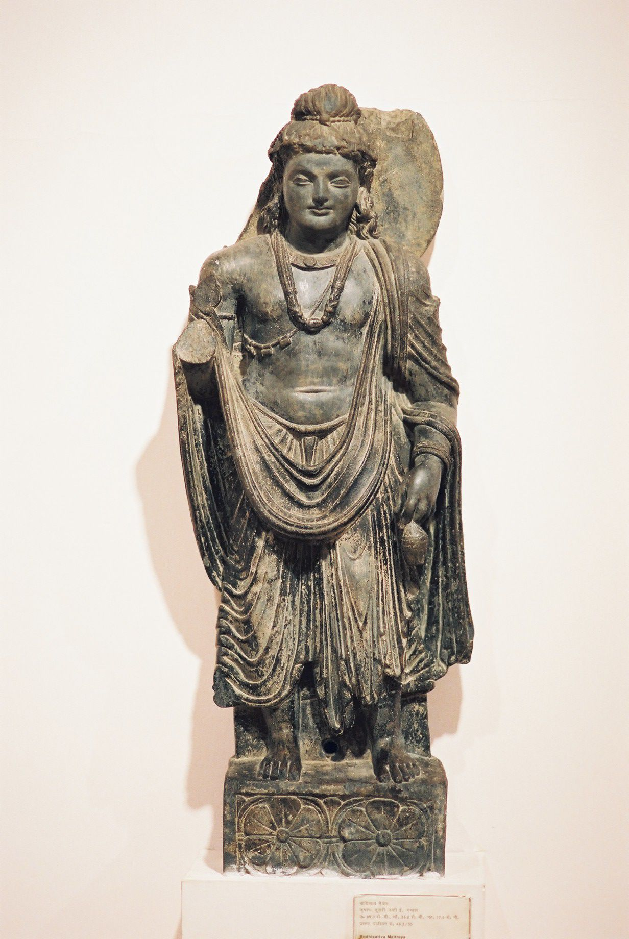 Bodhisattva Maitreya. Gandhara. Schist. National Museum, New Delhi (2005/01/22 National Museum, Delhi, INDIA)